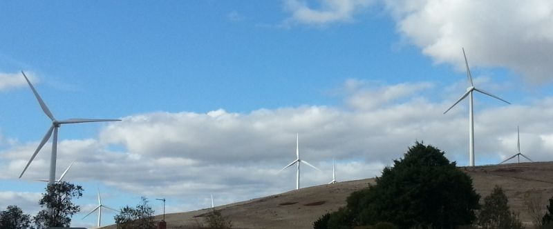 Part of the Waubra Wind Farm from the Sunraysia Highway